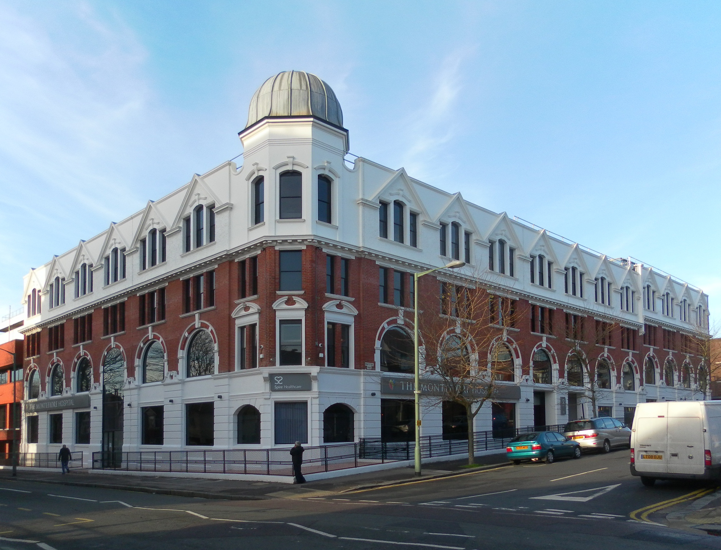 Montefiore Hospital, Davigdor Road/Montefiore Road, Hove, City of Brighton and Hove, England. The building dates from 1904 and was originally a furniture depository. Later it was occupied by Legal & General Assurance Services. They moved to another building in Hove in 2005, and this building was empty until it was acquired by Spire Healthcare in 2011. They renovated it, and it reopened in November 2012 as Montefiore Hospital, a private hospital.